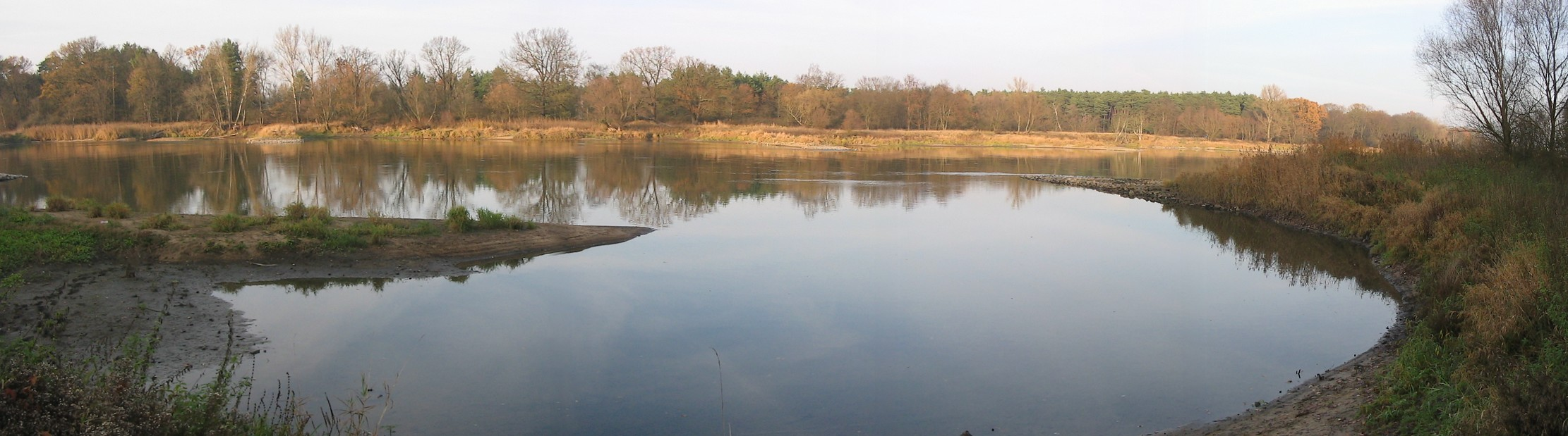 Oder River, Poland